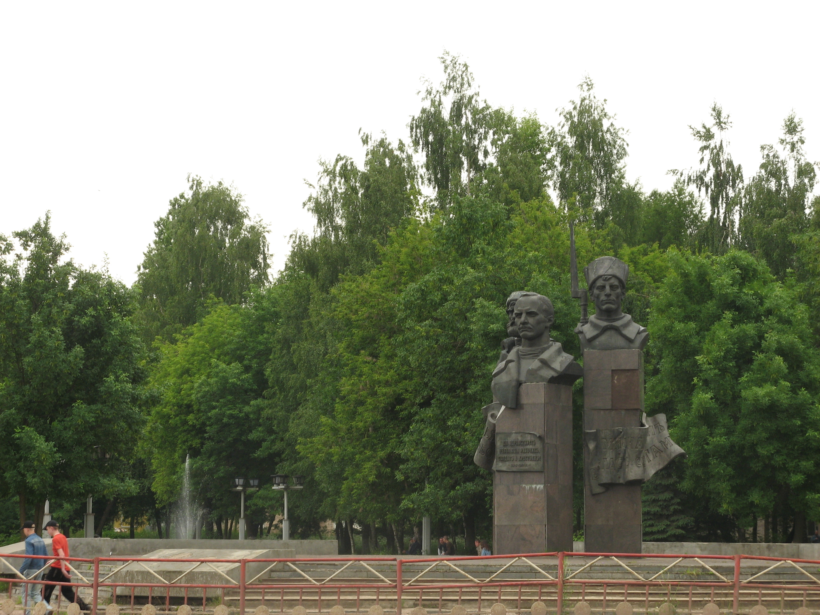 Памятник в Ржеве